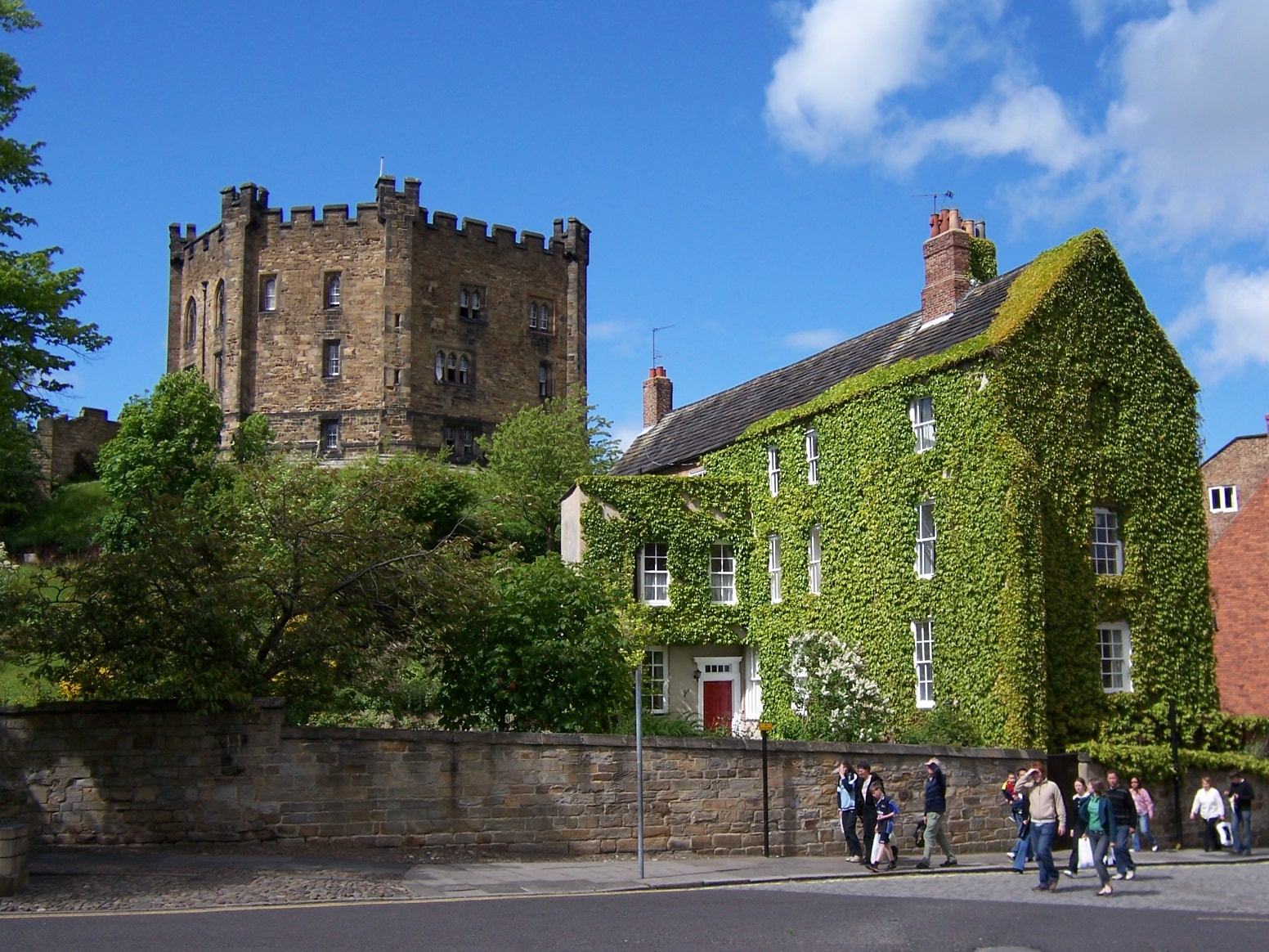 Keep of Durham Castle (Durham, England) own work; photo taken on 28 May 2006